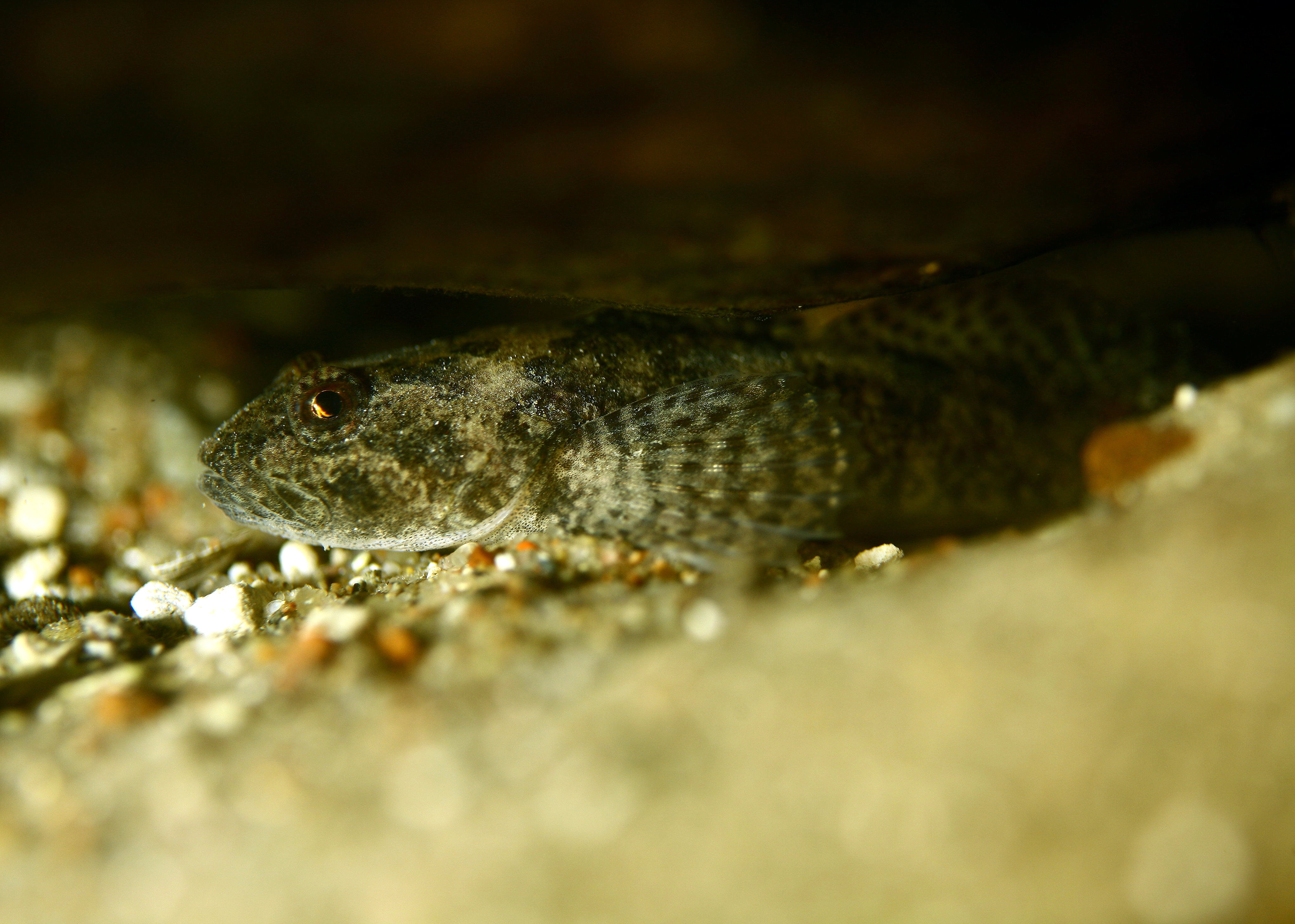 Cottus poecilopus, Alpine bullhead, Taken: Poland, Lake Hancza, ca. 54°15'20.80"N 22°48'47.47"E, depth: ca. 21m, water temp. ca. 9 deg C